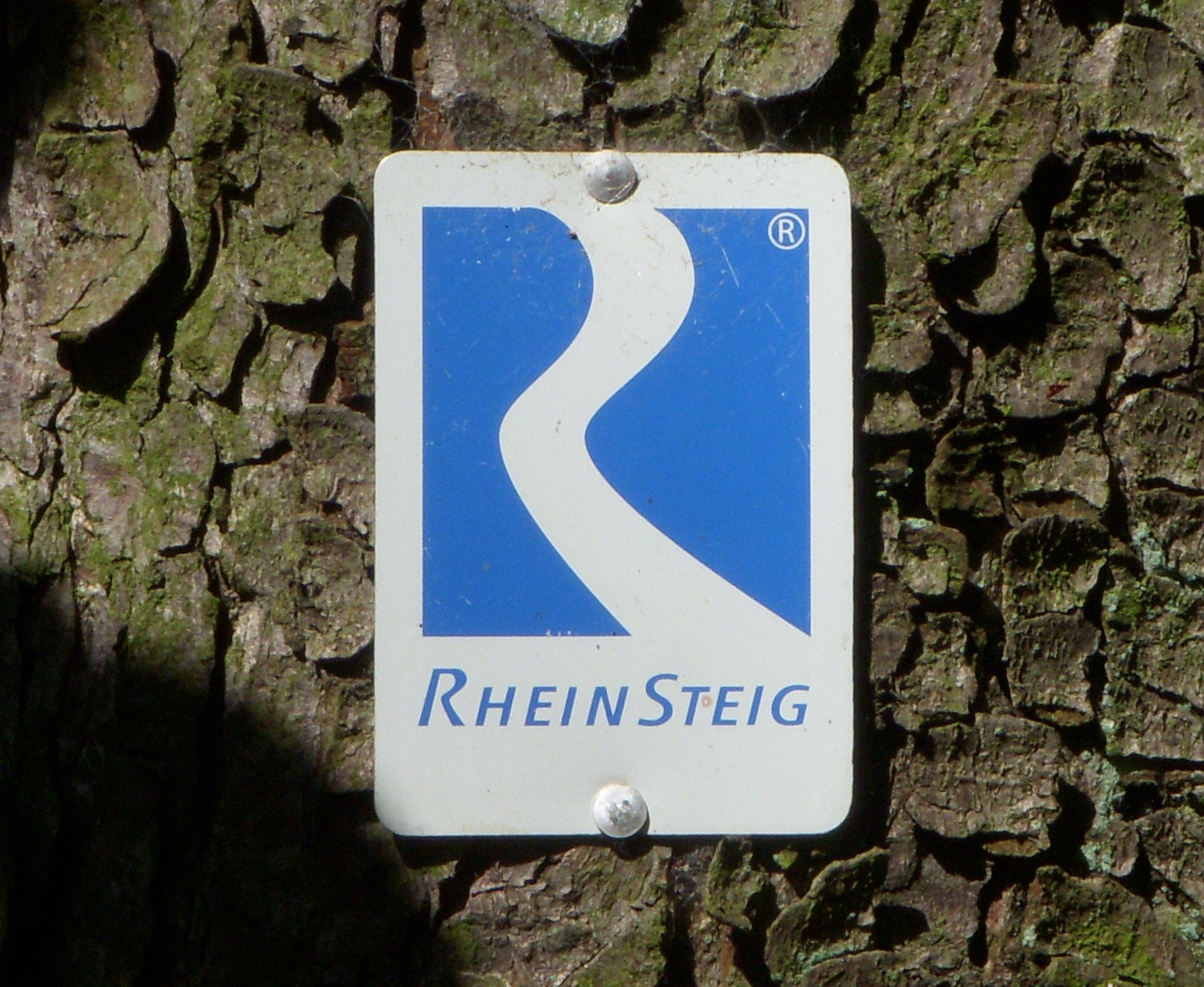 Waymark of the german hiking route Rheinsteig, photographed near Dattenberg, Rhineland-Palatinate